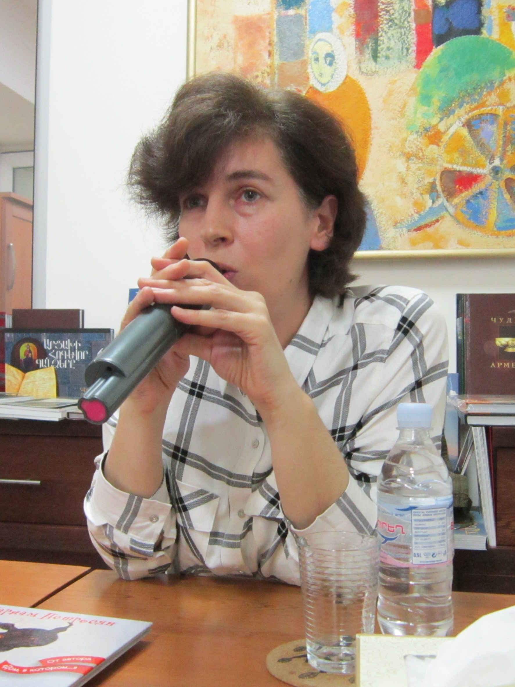 Mariam Petrosyan / Мариам Петросян Depicted person: Mariam Petrosyan – Armenian writer